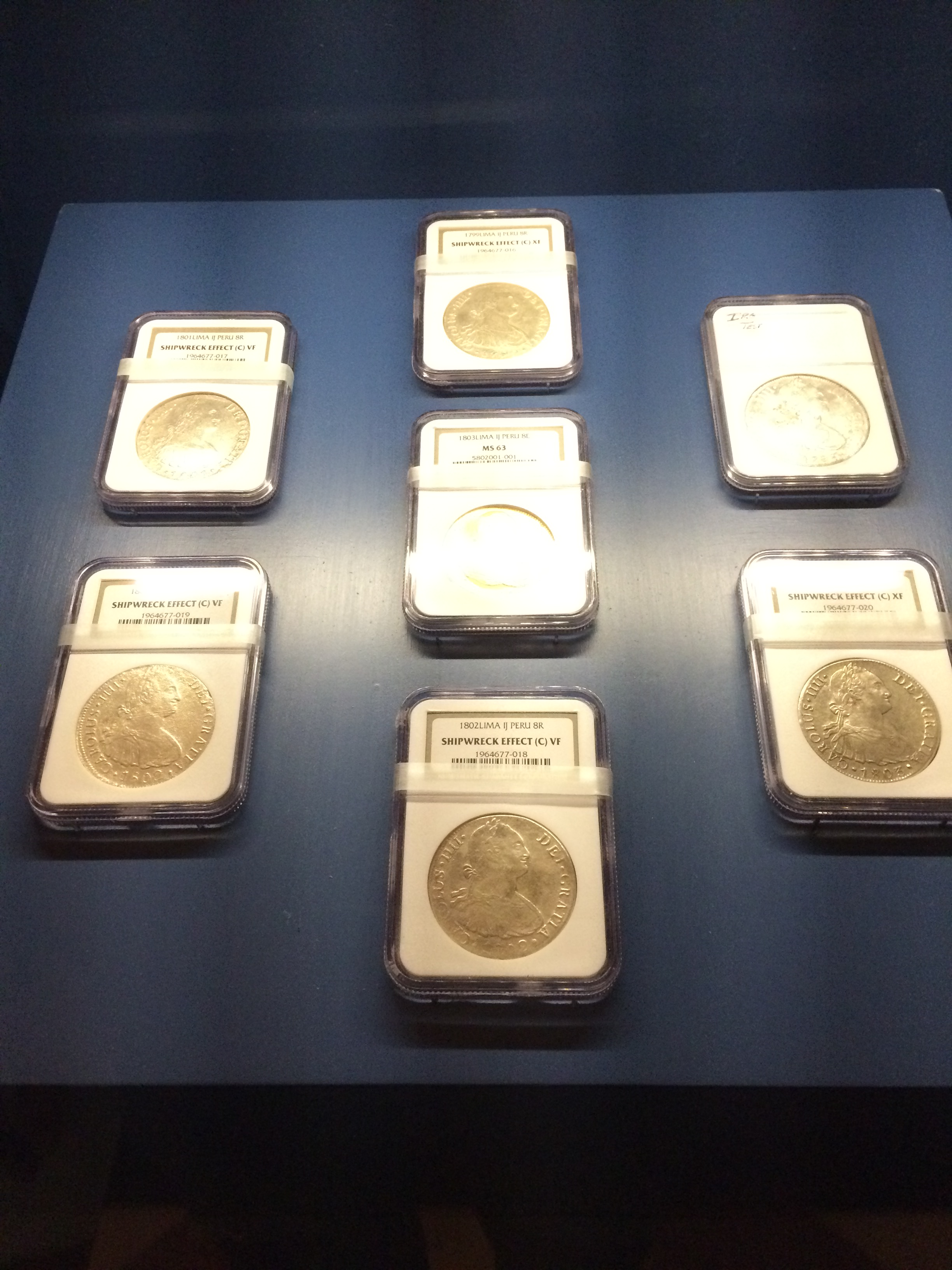 Spanish silver and gold coins from the reign of Charles IV salvaged by Odyssey from the shipwreck of frigate Mercedes and ready for sale by said company. Following a lawsuit in the USA, they now belong to Spain. Itinerant exhibition "The last voyage of the frigate Mercedes" at the Archivo General de Indias (Seville, Spain).